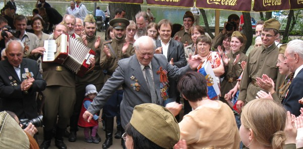 Russian Veteran dancing in the celebration of Victory Day, in Gorki Park, Moscow.